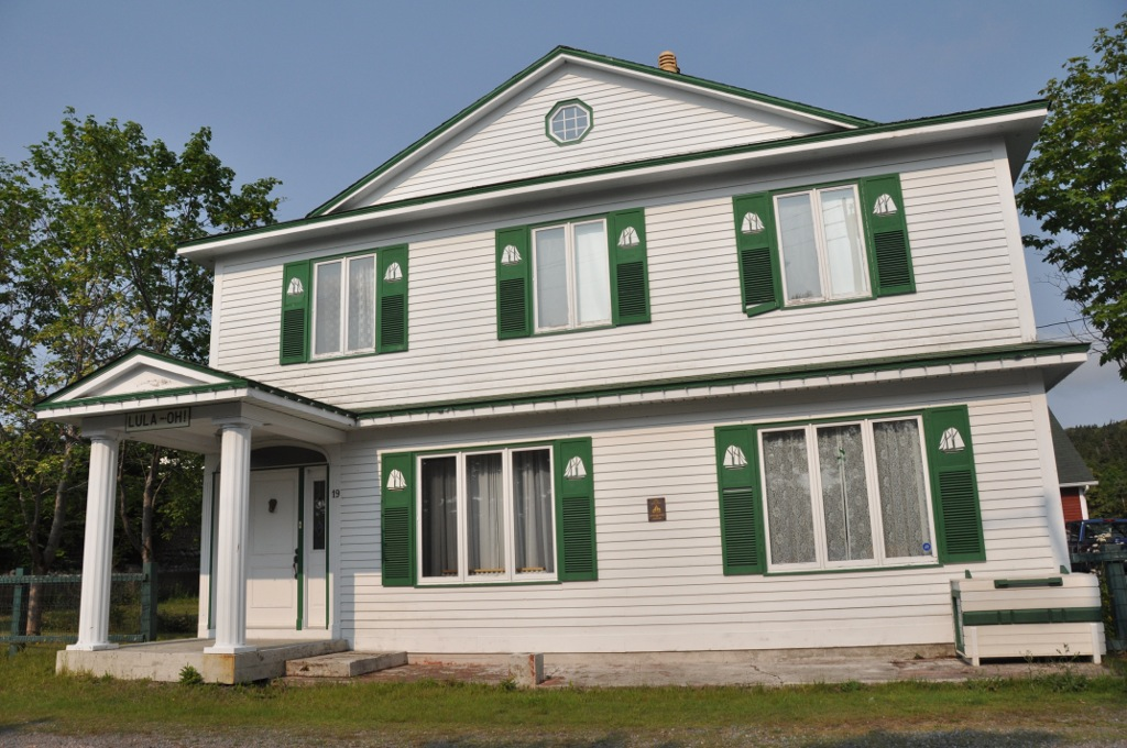 Lulah-Oh! / Carroll Property Municipal Heritage Site, Holyrood, Newfoundland.